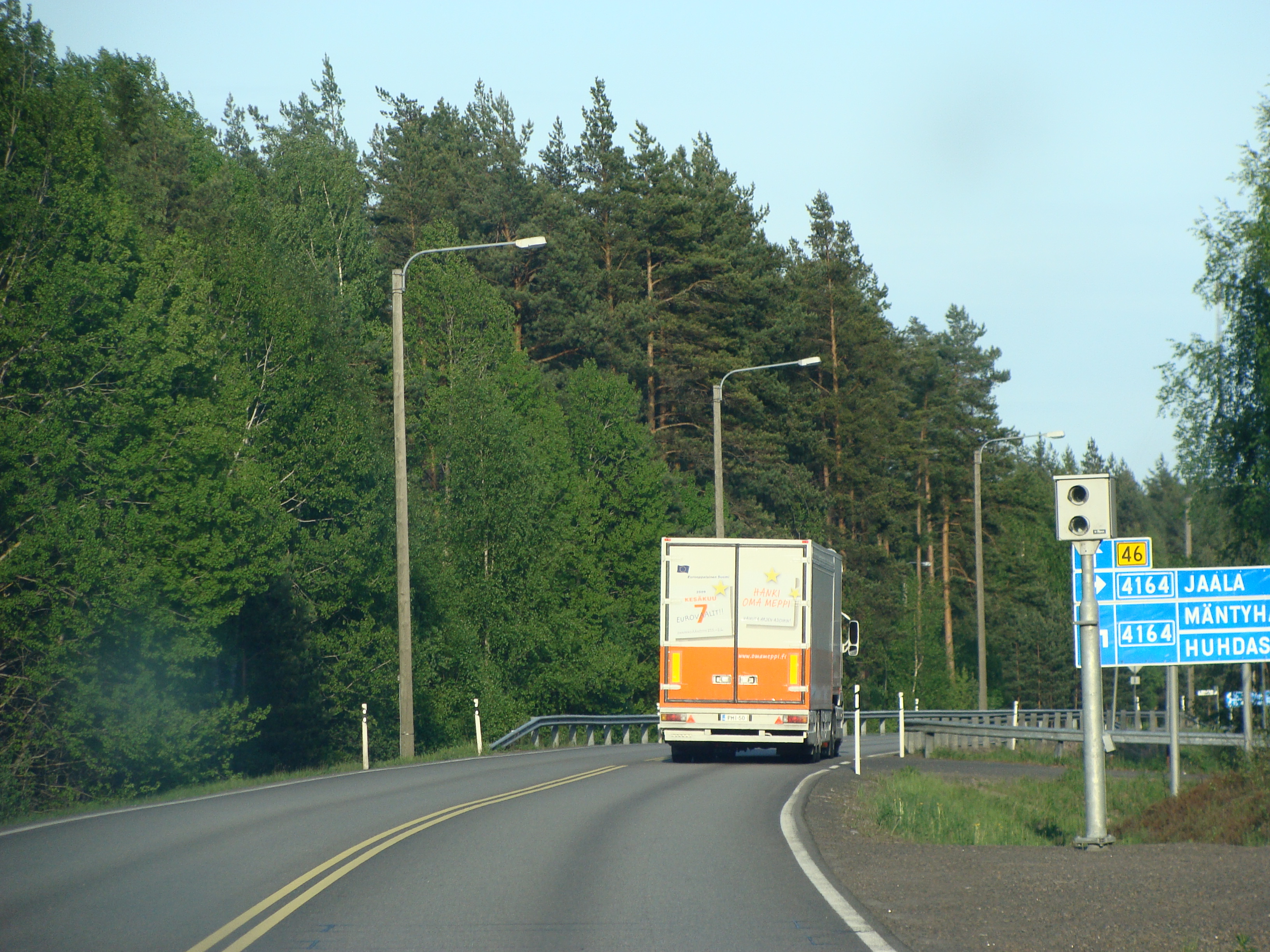 Main road 46 near Jaala in Finland. A speed camera in the foreground.